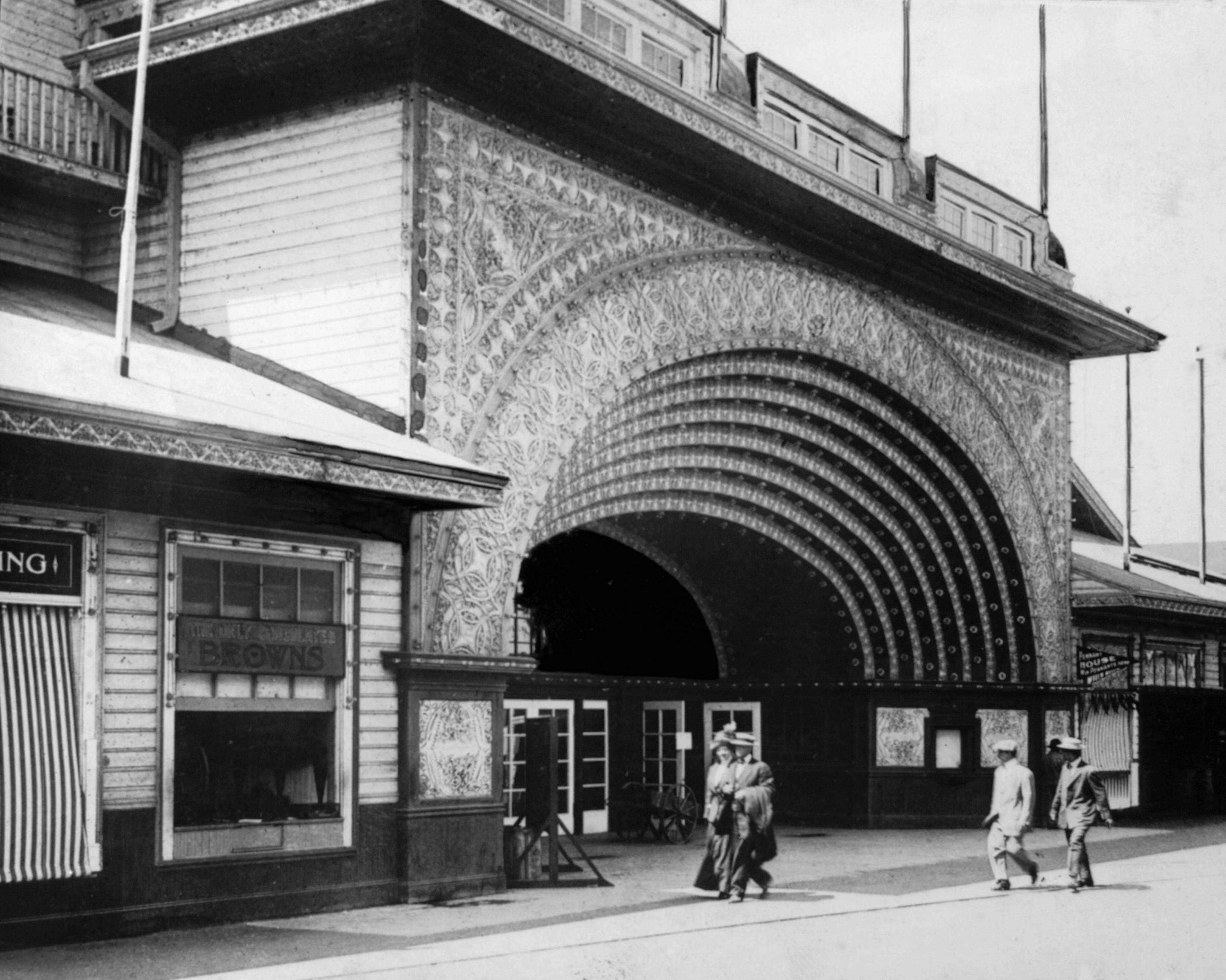 "Photograph of several people strolling by the Dance Hall on the Amusement Pier at Venice Beach. 'Dance Hall / Venice' -- handwritten note on verso.; Streetscape." Los Angeles, California.